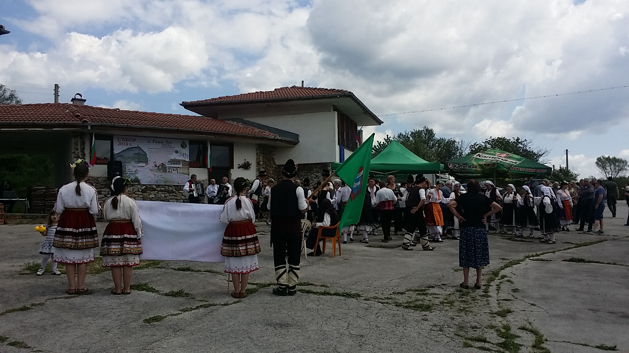 Събор в село Рани Луг - 12.05.2018